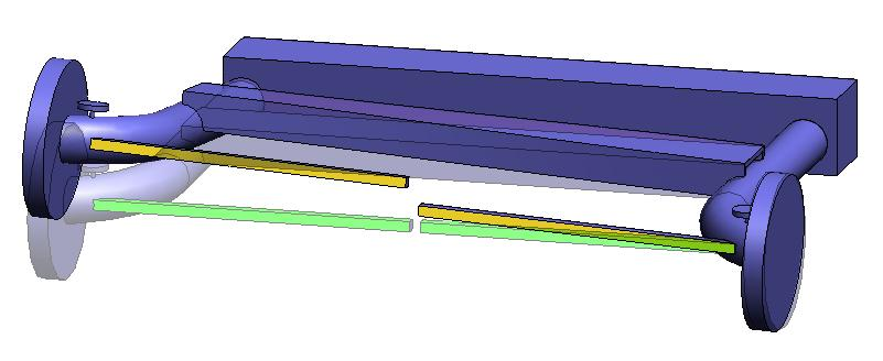 Twist beam suspension shown in double exposure. Left side up and both sides in neutral state